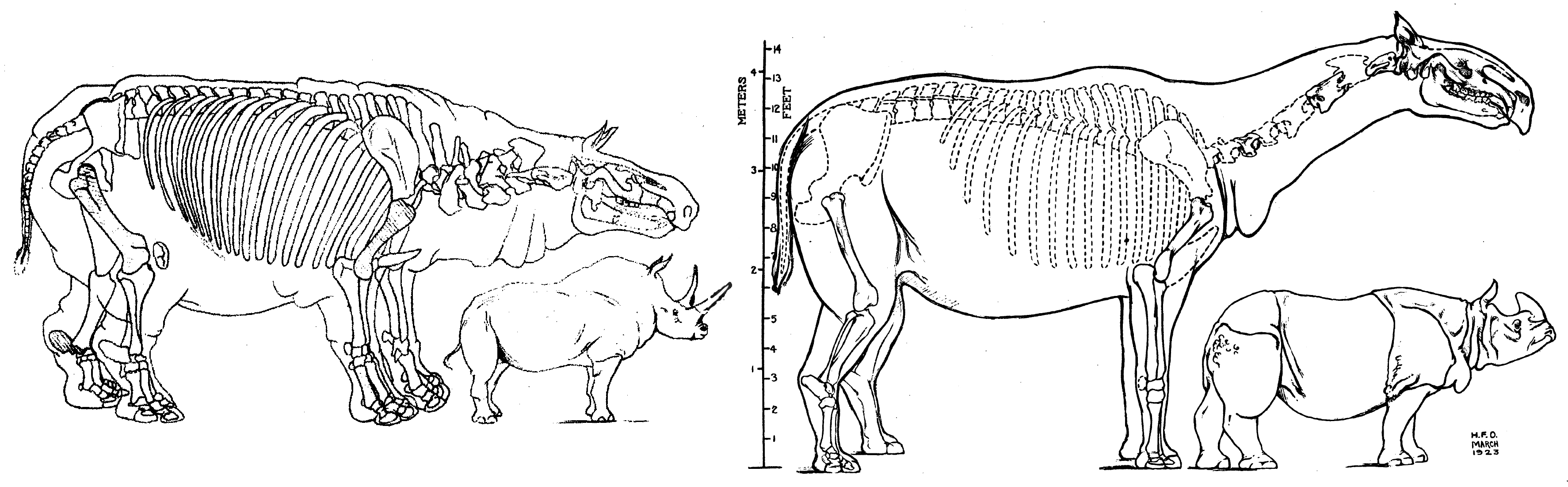 Reconstruction of Baluchitherium by Osborn, published in: Henry Fairfield Osborn: The extinct giant rhinoceros Baluchitherium of Western and Central Asia. Natural History, New York 23 (3), 1923, pp. 208–228 b(p. 226), the lower on ist also published in higher resolution in: Henry Fairfield Osborn: Baluchitherium grangeri, a giant hornless rhinoceros from Mongolia. American Museum Novitates 78, 1923, pp. 1–15 (p. 10)